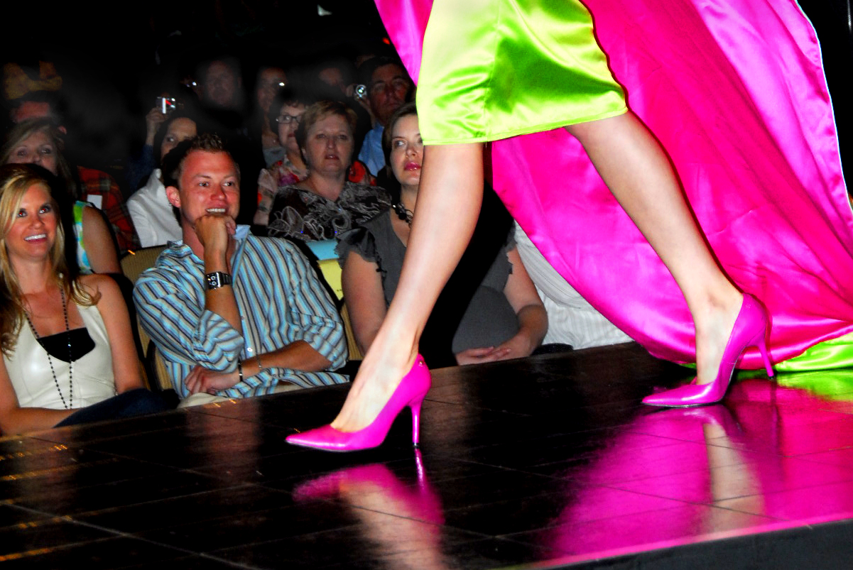 University of Texas Evolution Fashion Show on April 20, 2007. Photo by Steve Hopson, . More UT Evolution photos